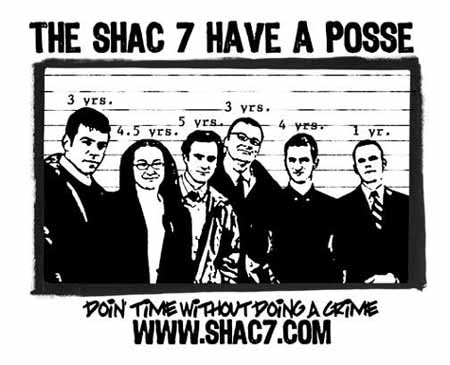 SHAC 7 Posse Here's a closer look at the SHAC 7 "animal enterprise terrorism" case.